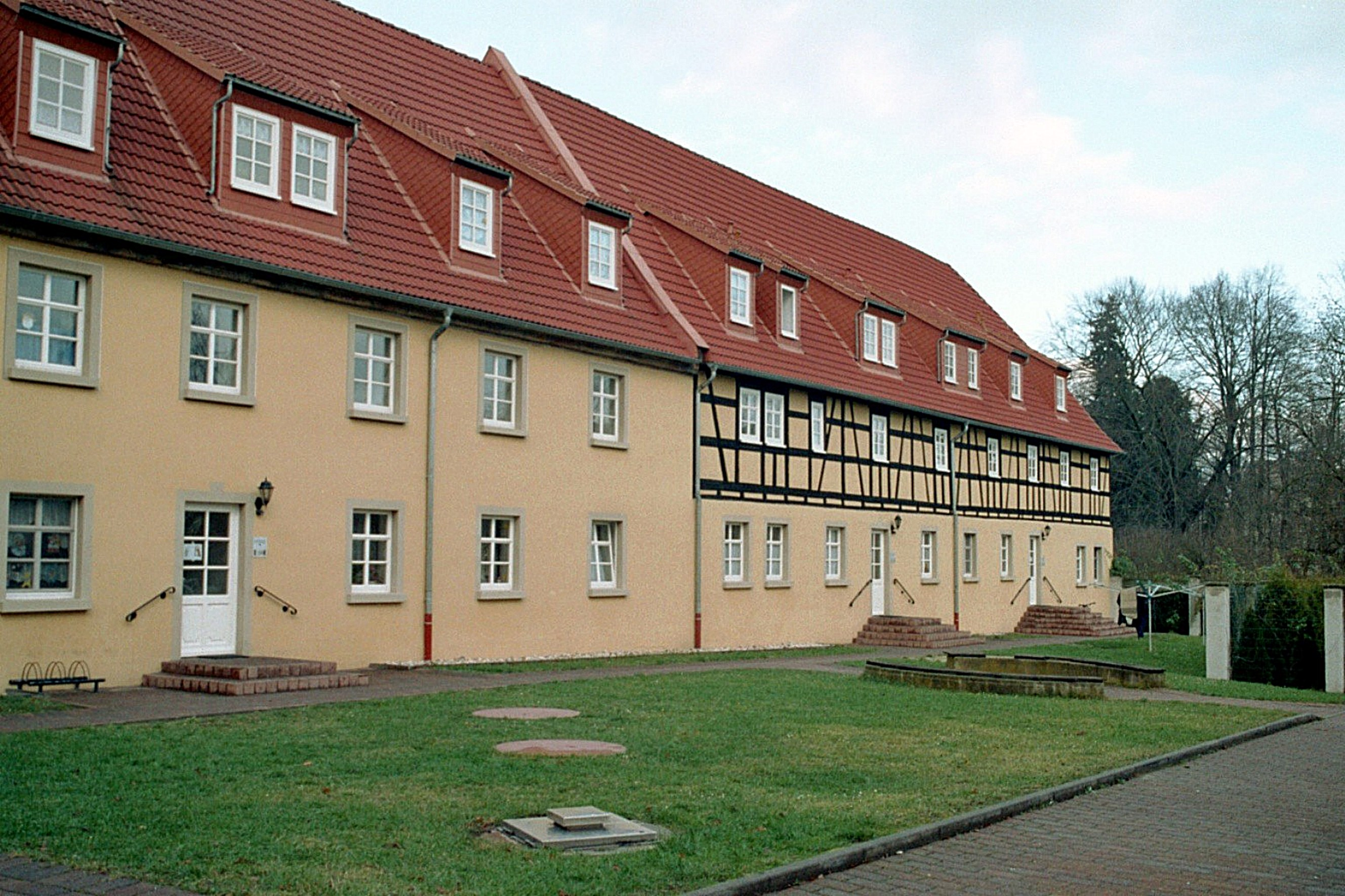 Hartmannsdorf next to Eisenberg, the palace, adjacent building